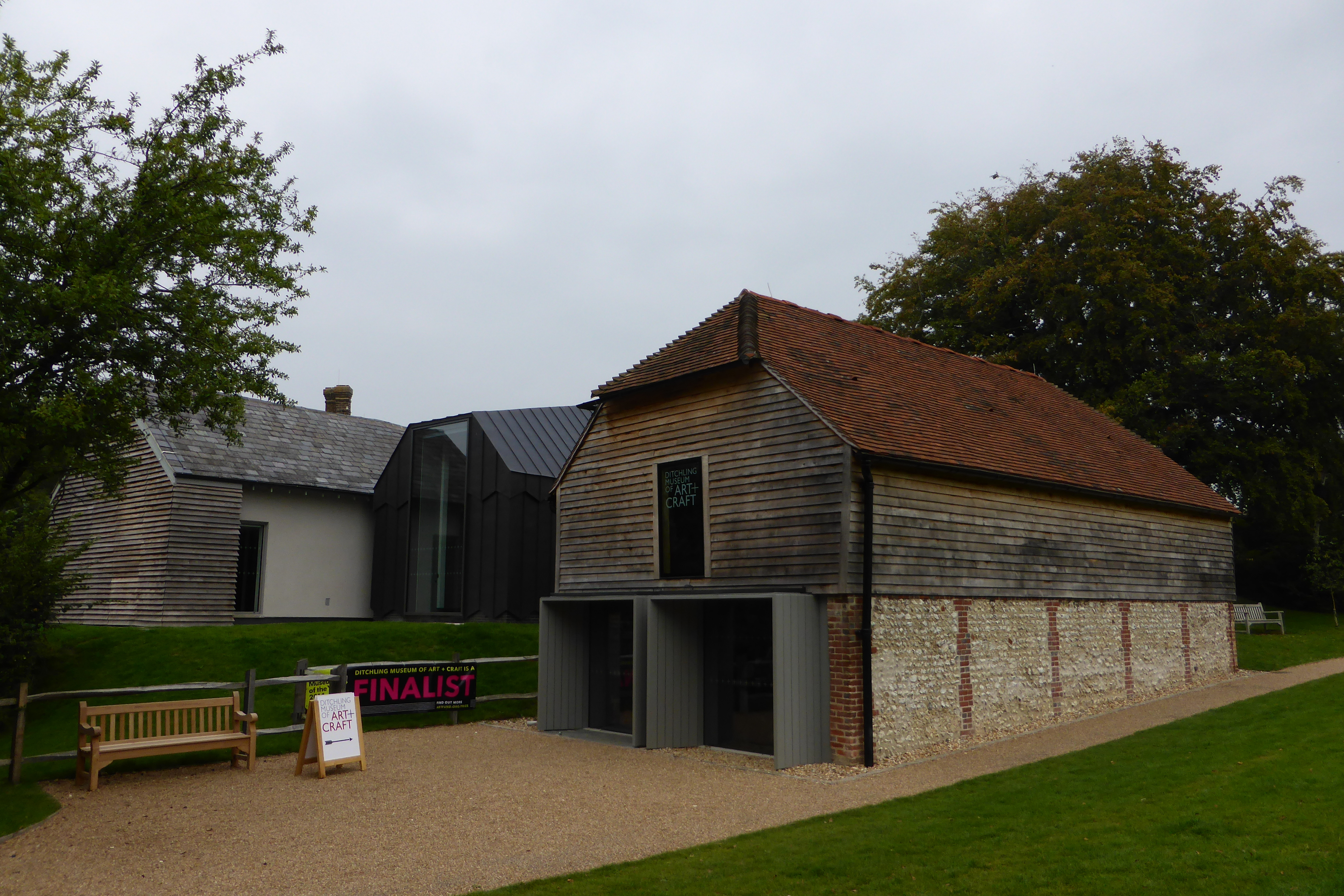 Ditchling Museum of Art and Craft pic by Adam Richards Architects